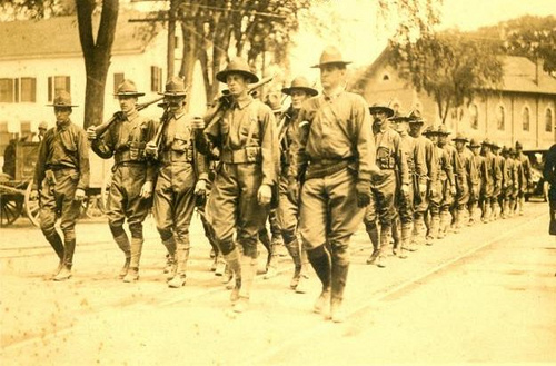 Troops marching through Kennebunk, York County, Maine, during World War I. Courtesy of the Kennebunk Free Library, Kennebunk, Maine. Retouched by MarmadukePercy